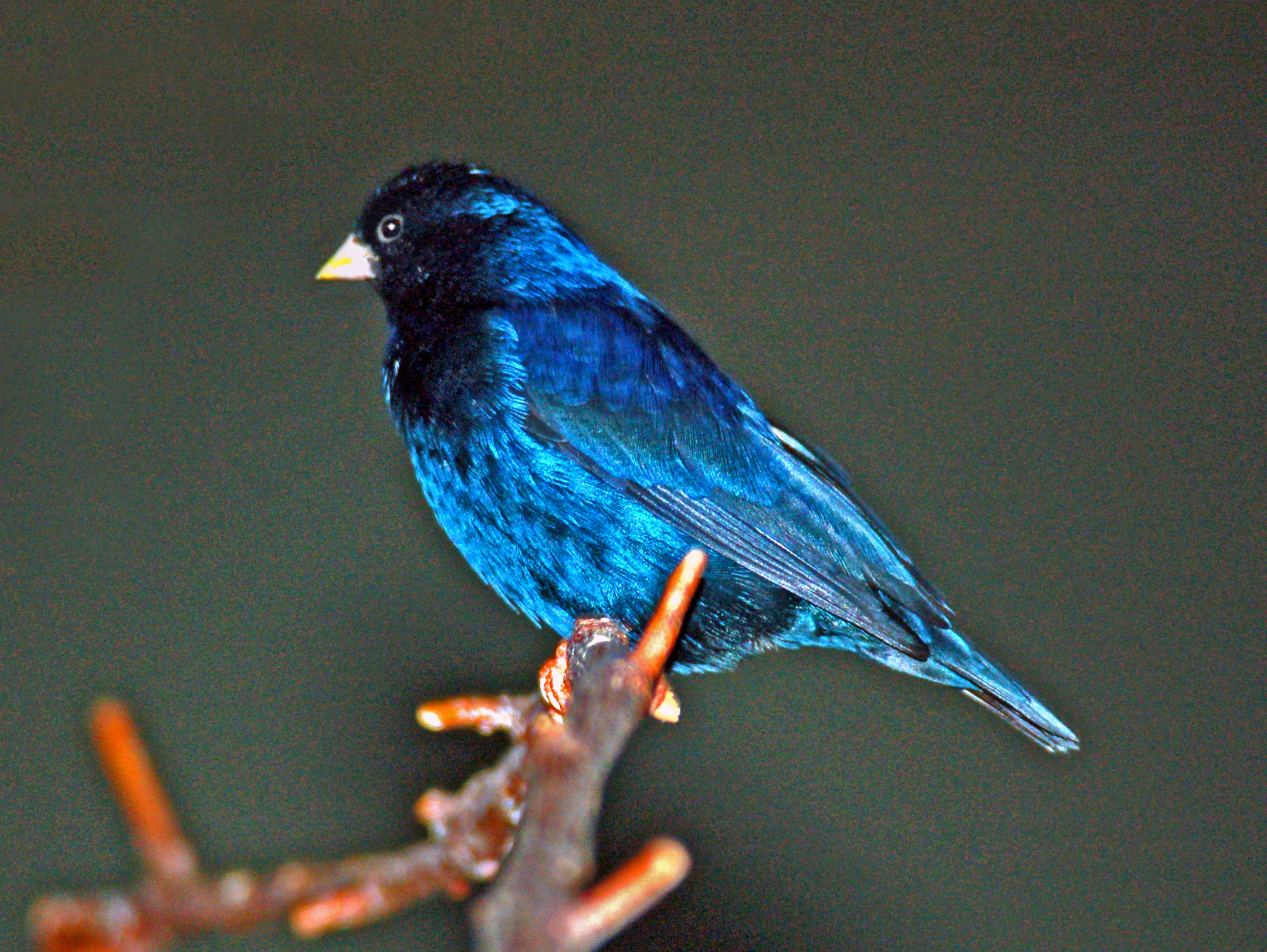 Vidua chalybeata at Bird Kingdom, Niagara Falls